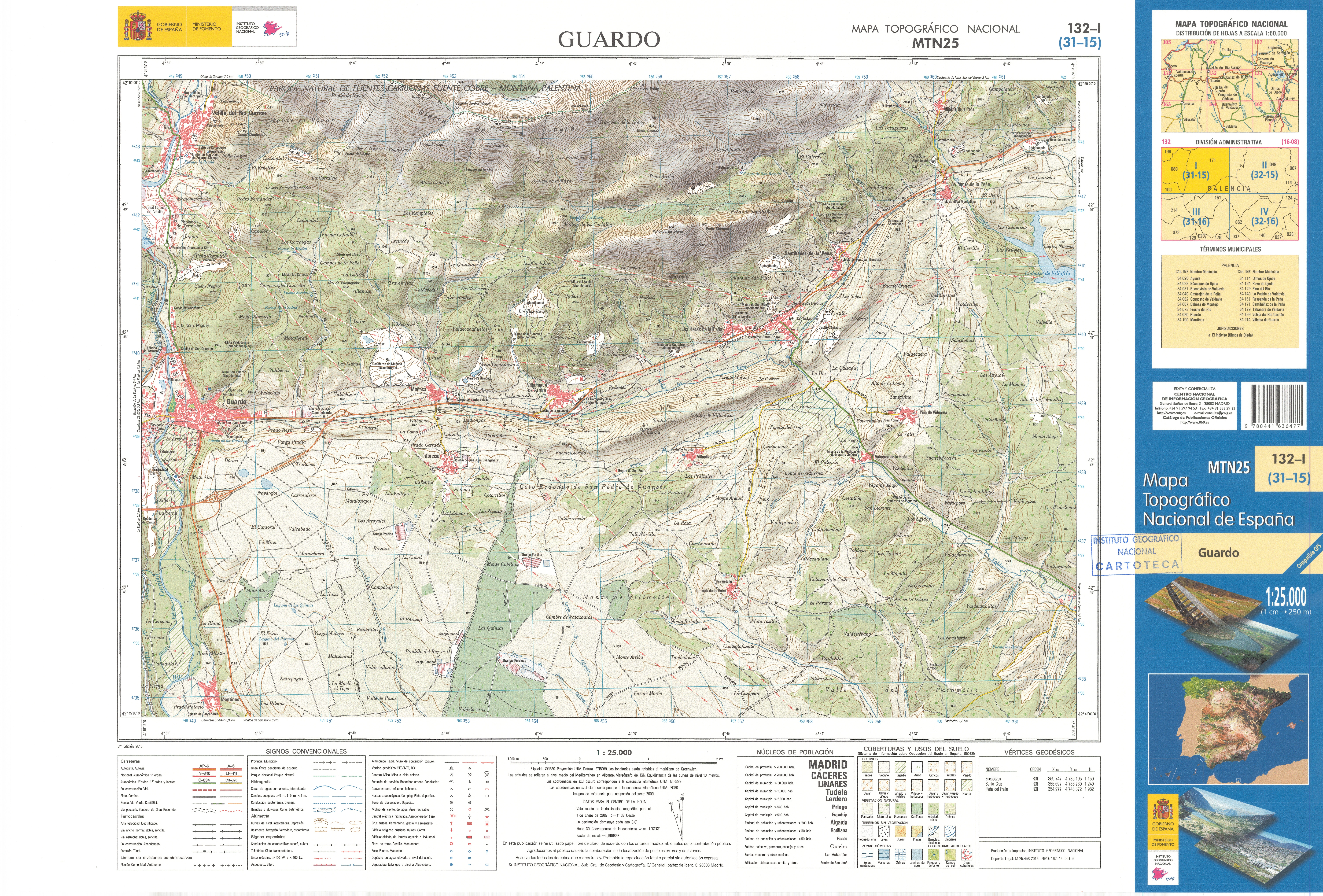 Fragment 0132c1 of the National Topographic Map of Spain in 2015 at a scale of 1:25000 printed and scanned with a resolution of 250 ppi. It shows Guardo.